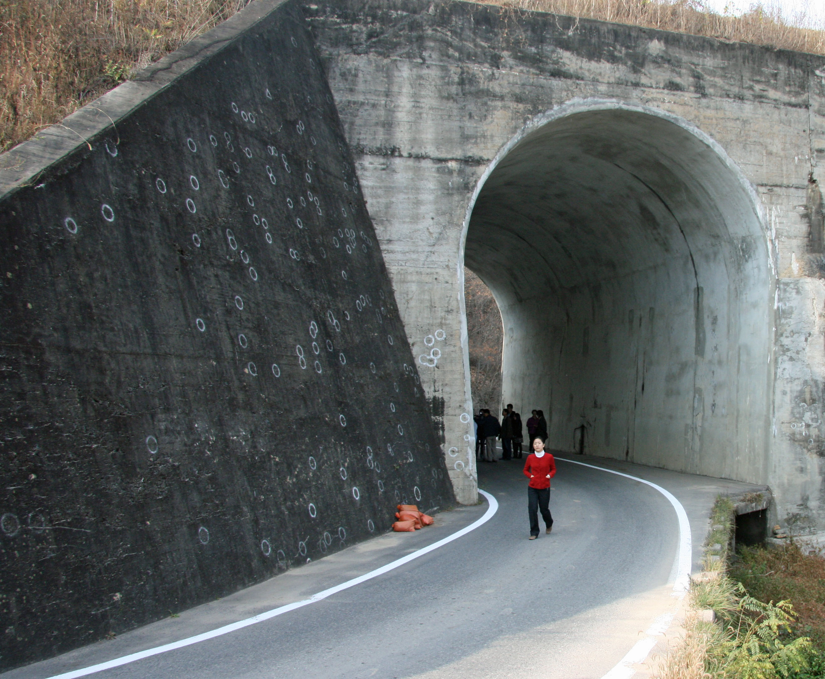 This 2008 photo shows a concrete abutment outside one of the twin underpasses of the No Gun Ri railroad bridge, where investigators' white paint identifies bullet marks and embedded fragments from U.S. Army gunfire in the 1950 massacre of South Korean refugees trapped beneath the bridge. Others are similarly marked inside the tunnel. Still other evidence lies beneath the level of the road, built years after the killings.